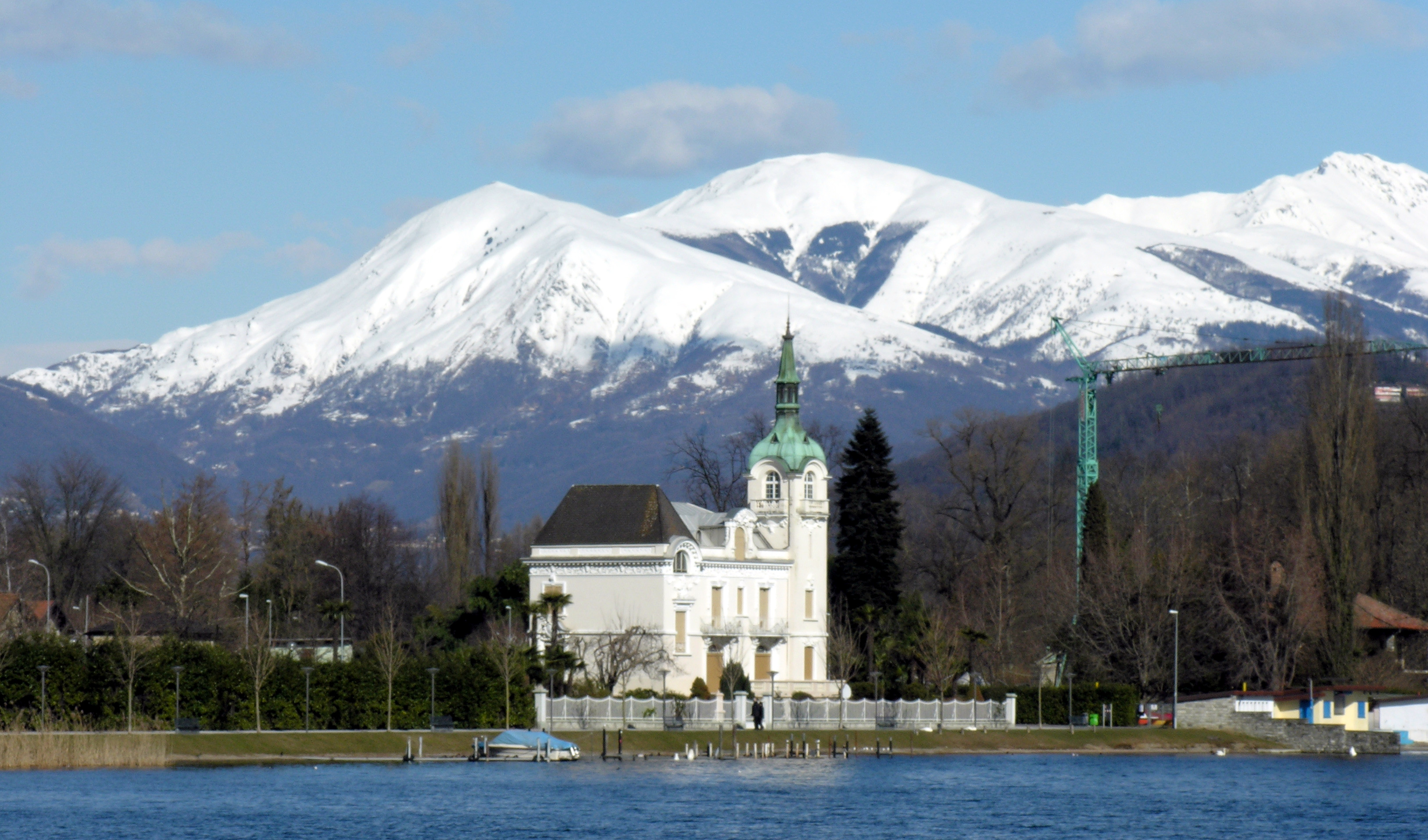 Caslano, Tessin, Switzerland: Villa Ferretti – Mountains in the background from left: Caval Drossa (1632 m), Monte Bar (1816 m) and Camoghè (2228 m)